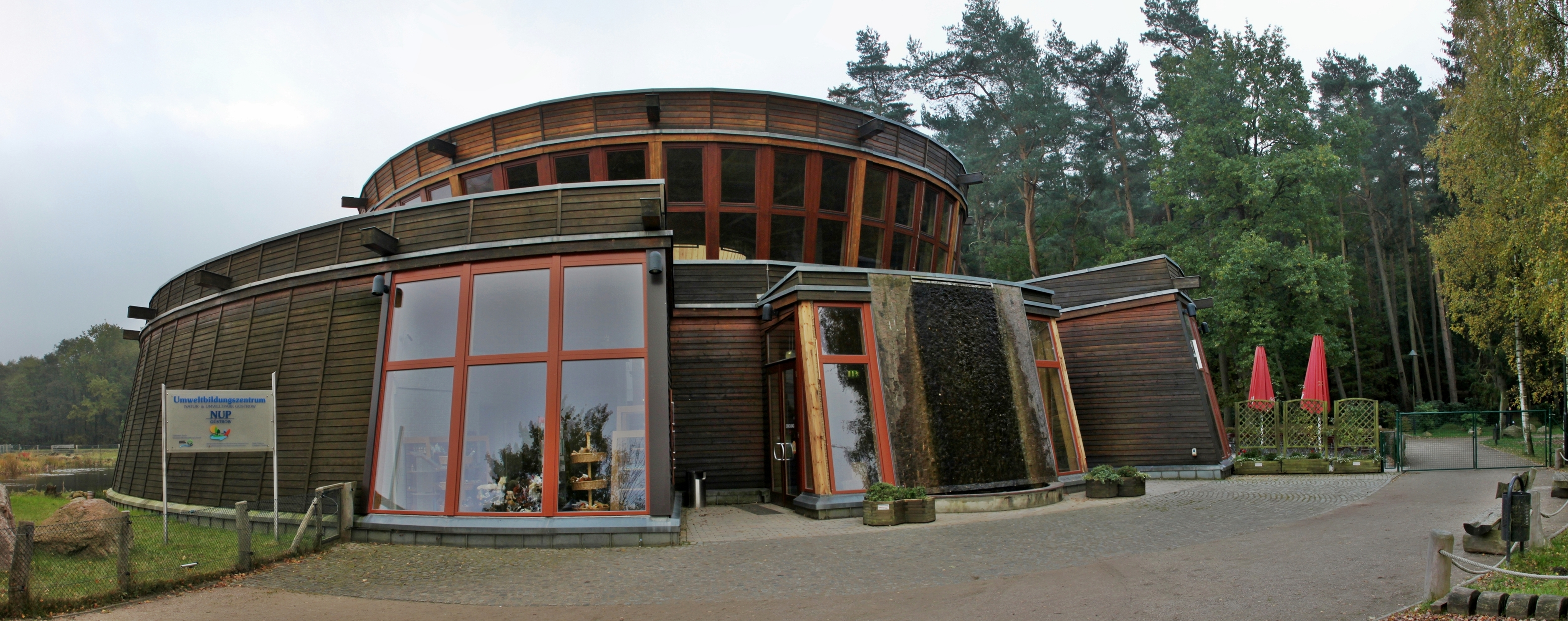 Güstrow: this image shows the environmental education centre in the Nature and Environment Park.